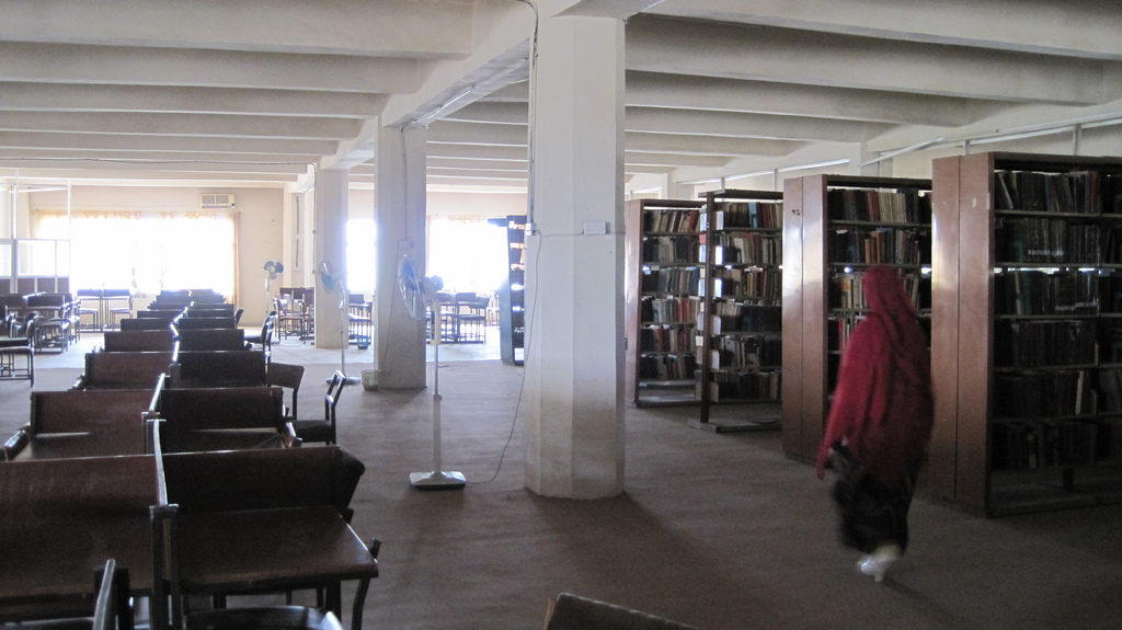 The university in recess (hence few students on campus)